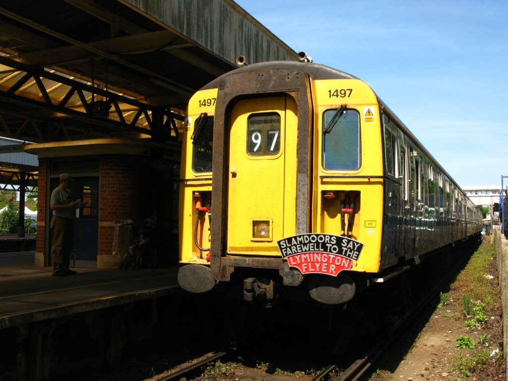 Class 421 number 1497 prepares to leave Brockenhurst station with a 'Lymington Flyer' service on 22 May 2010. This was the last day of operation of "slam door" multiple units on the former Southern Region of British Railways. Following withdrawal this unit was preserved on the Mid-Norfolk Railway.